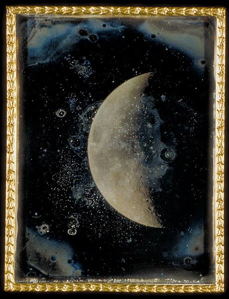 "View of the Moon," daguerreotype by John Adams Whipple. Image courtesy of the Harvard-Smithsonian Center for Astrophysics, Harvard College Observatory, Plate Stacks.